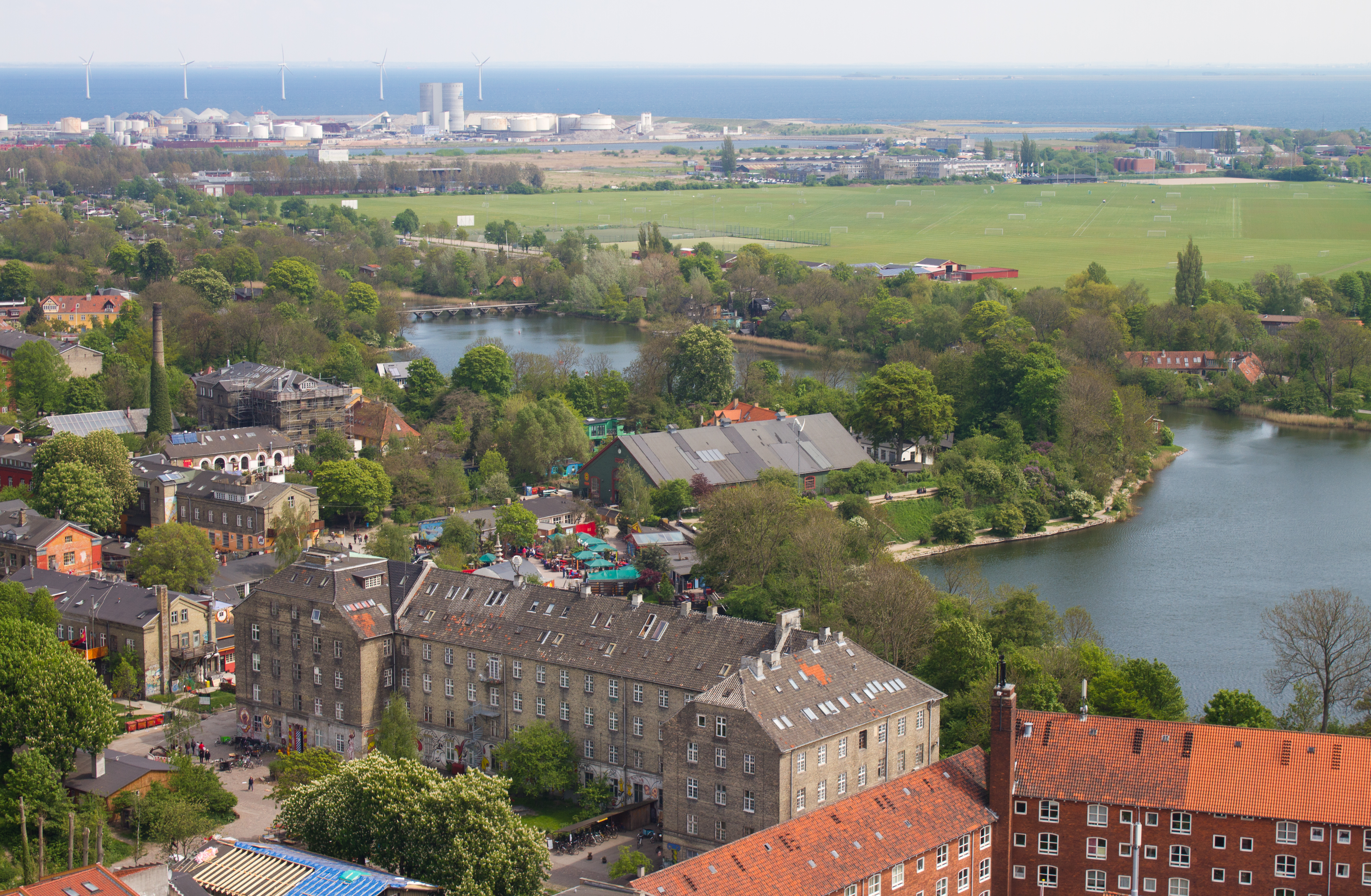 View from Church of Our Saviour in Copenhagen, Denmark, featuring Stadsgraven canal with Dyssebroen bridge and Kløvermarken green space to the right.